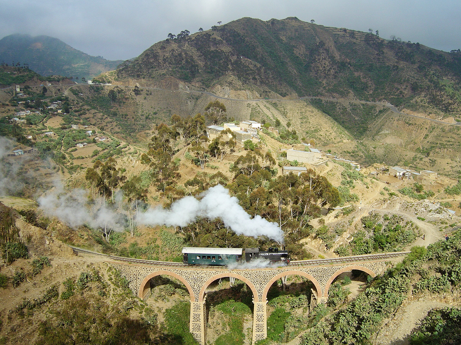 Eritrean Railway, showing mountainous terrain traversed between Arbaroba and Asmara.